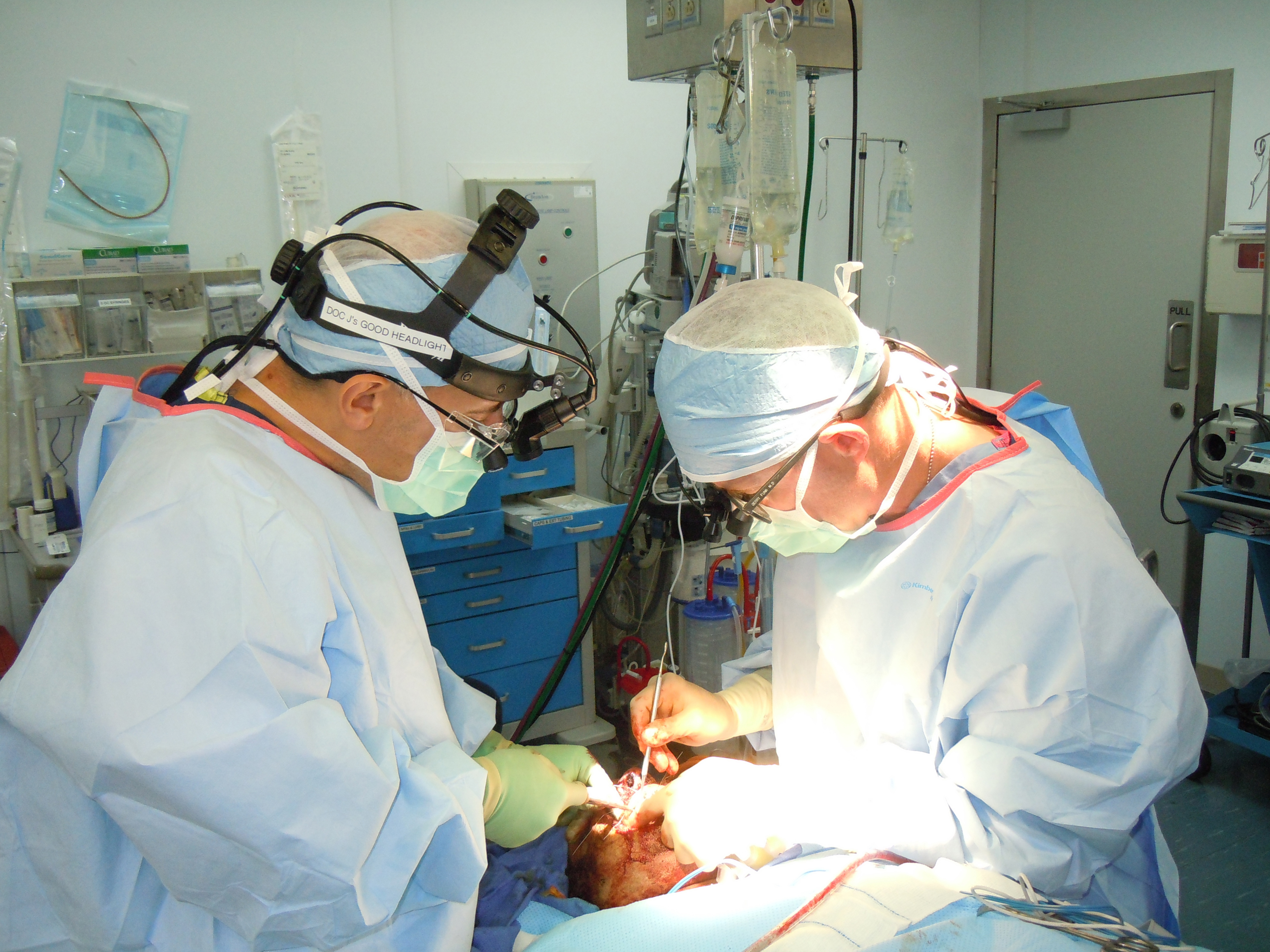 Air Force Lt. Col. (Dr.) Carlos Ayala, 455th Expeditionary Medical Group, chief of ear nose and throat/facial plastic surgery, performs a facial reconstruction on a patient at the Craig Joint Theater Hospital here. Ayala serves as the only facial plastic surgeon in Afghanistan and provides care to local nationals, Afghan National Police and U.S. service members who have experienced head or neck trauma.